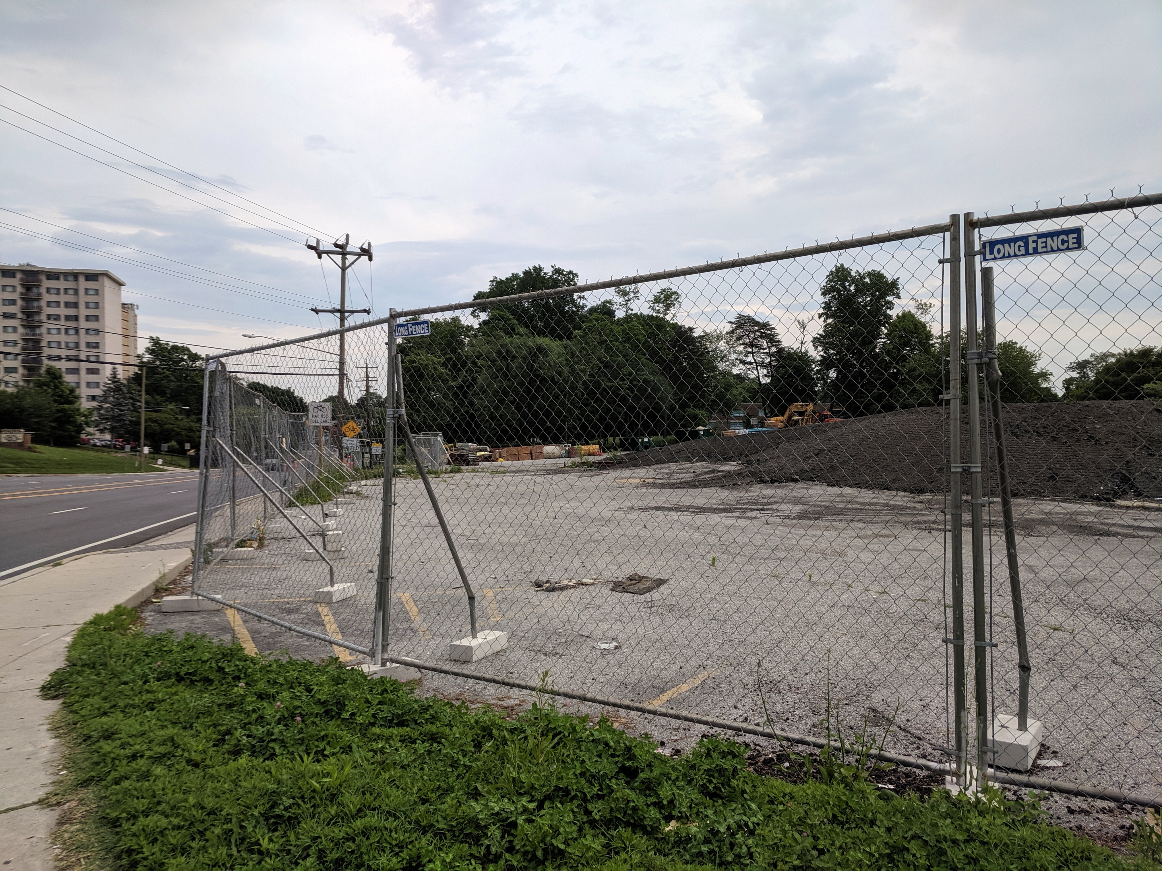 Construction of the Piney Branch Road station in Silver Spring, Maryland.